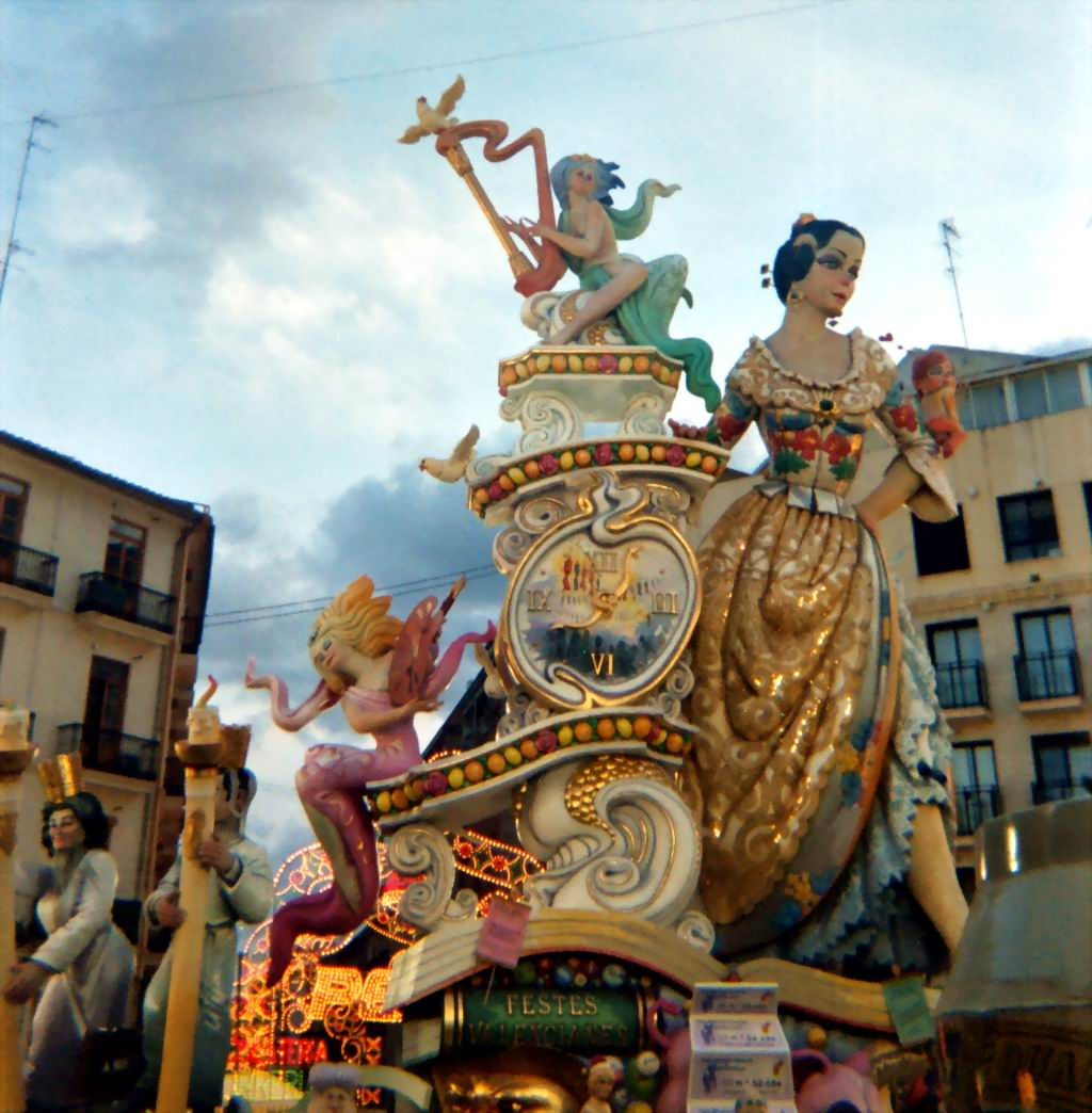 Falles with valeciana. Photo taken by me (GFDL licence)